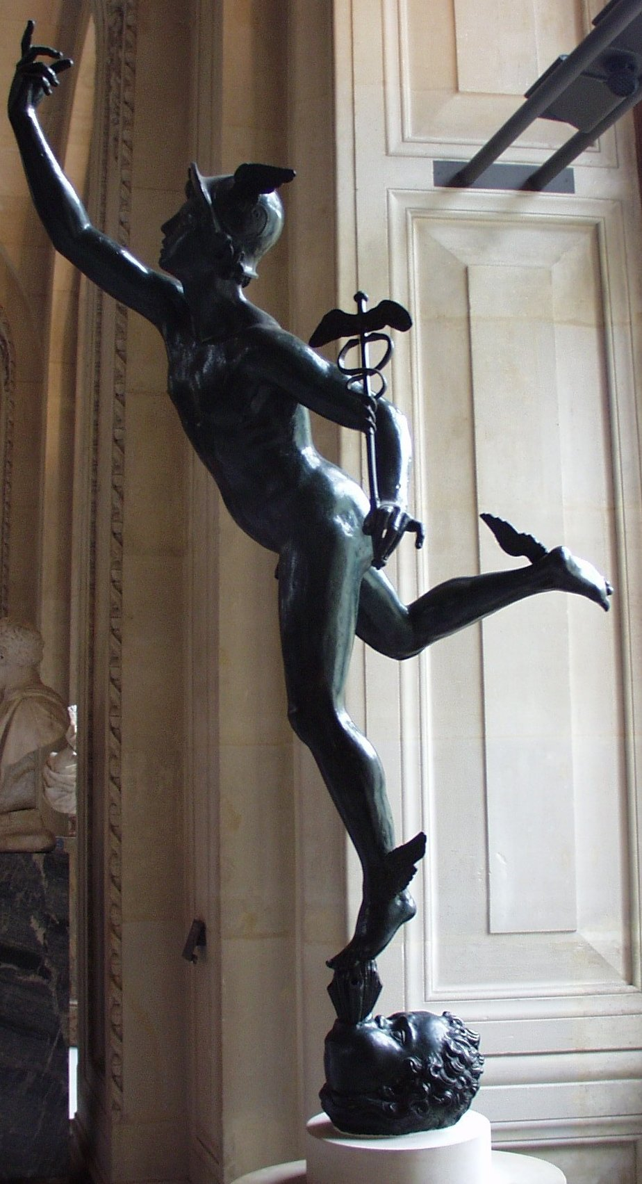 Flying Mercury (Mercure volant) by Giambologna, a Flemish-Italian sculptor.